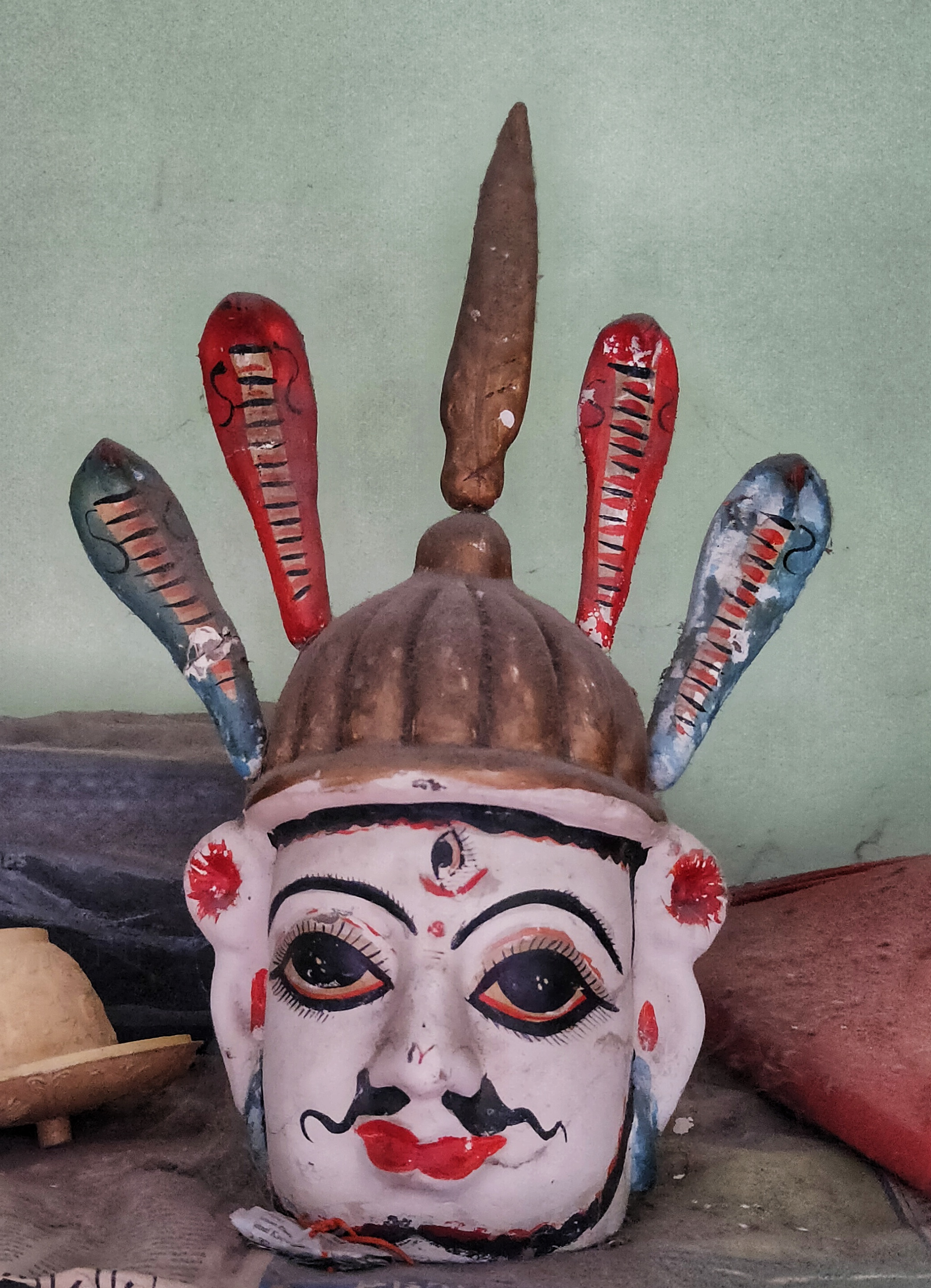 Shiva mask is the traditional cultural aspect of Nabadwip.